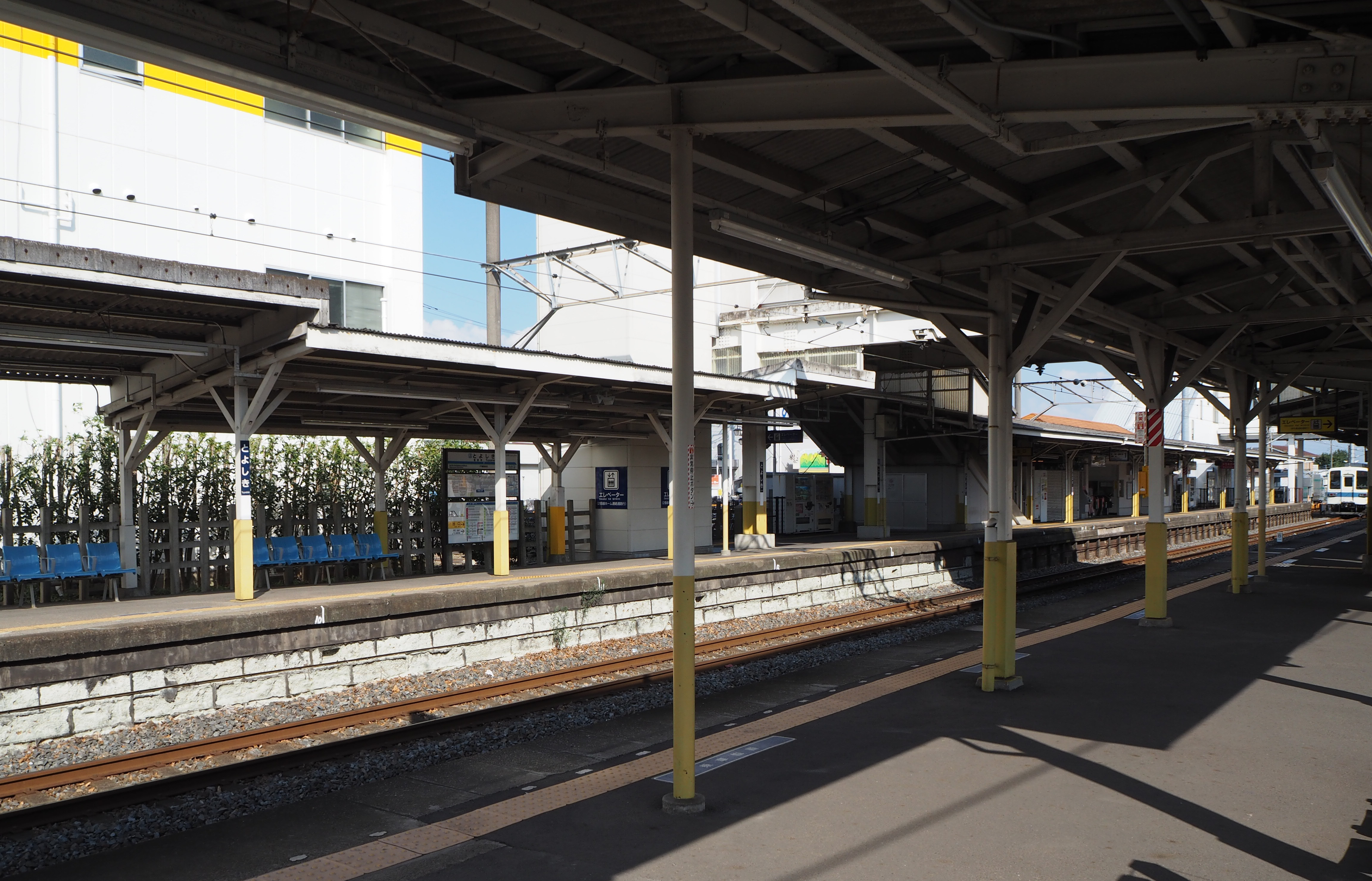 Platforms of Toyoshiki Station